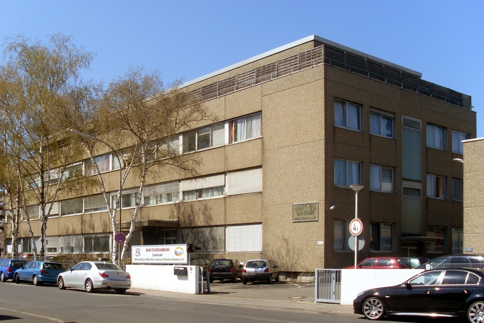 Bait us-Sabuh - The national headquarters of the Ahmadiyya Muslim Community Germany in Frankfurt.